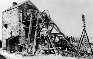 The Meadow Shaft of Minera Leadmines.